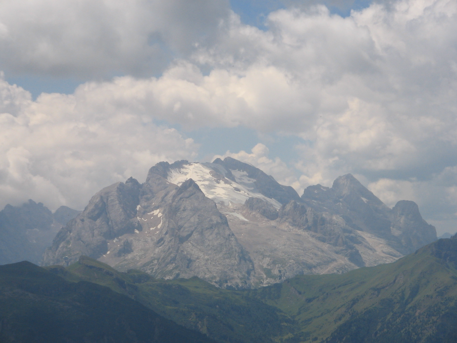 Marmolada, Dolomiti, Italy. North side with the glacier